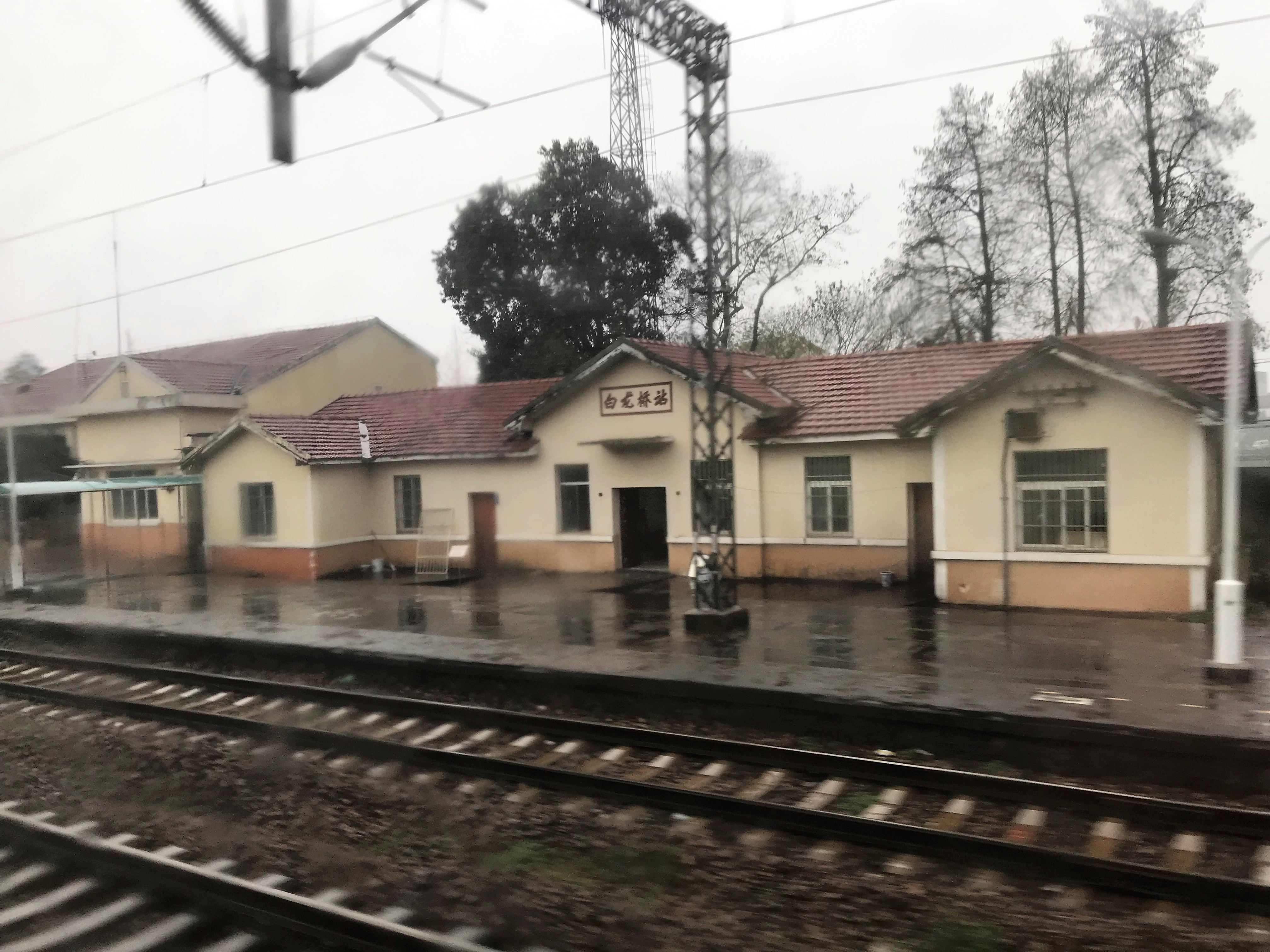 201901 Station Building of Bailongqiao Station (1)